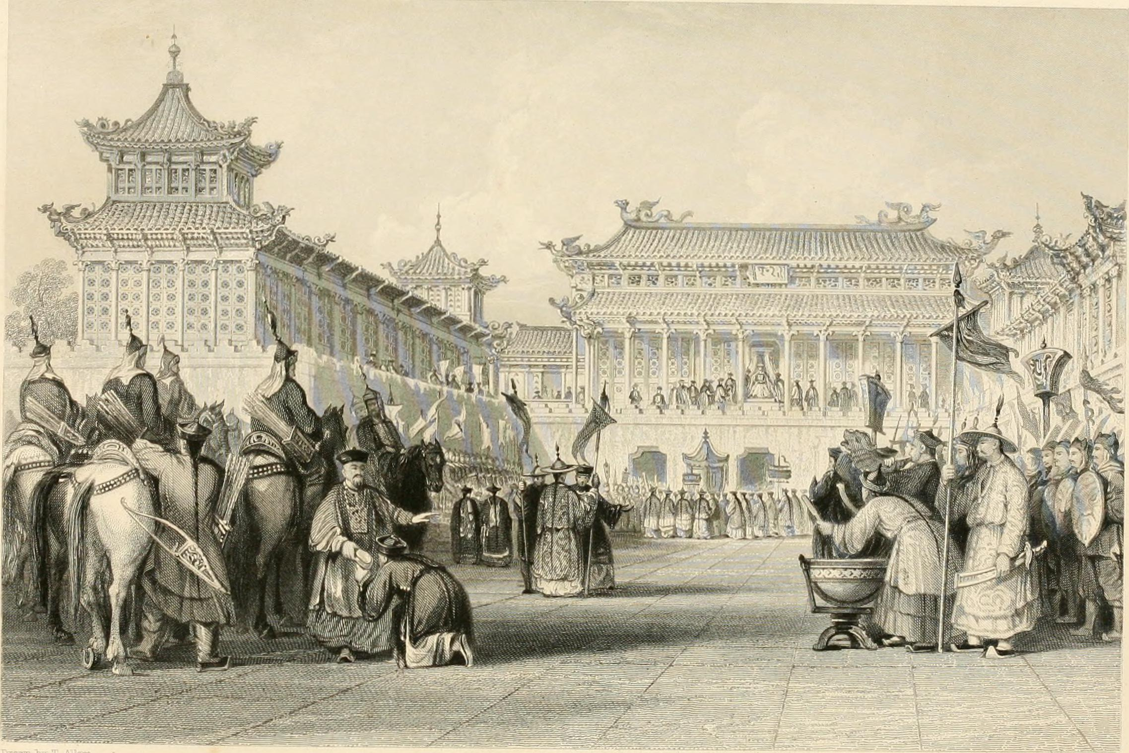 The Emperor Taou-Kwang reviewing his guards at the Palace of Peking.